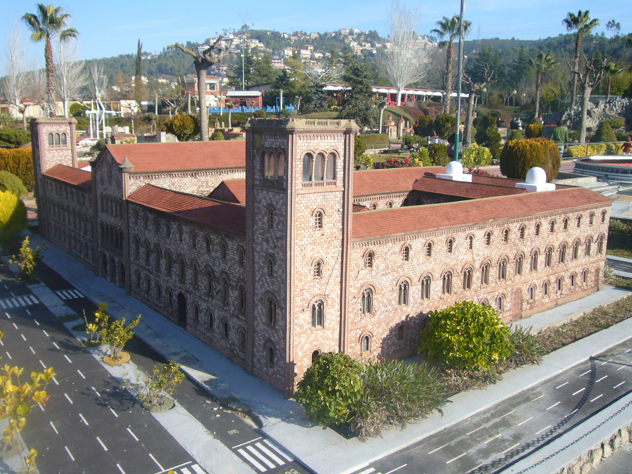 Scale model at the "Catalunya en Miniatura" miniature park : Historic Building of Universitat de Barcelona